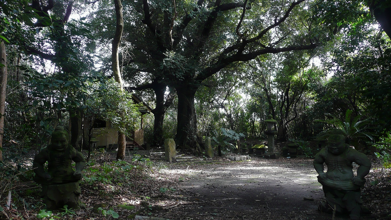 Former Kasano Yakushi (Kimotsuki Town, Kagoshima, Japan)